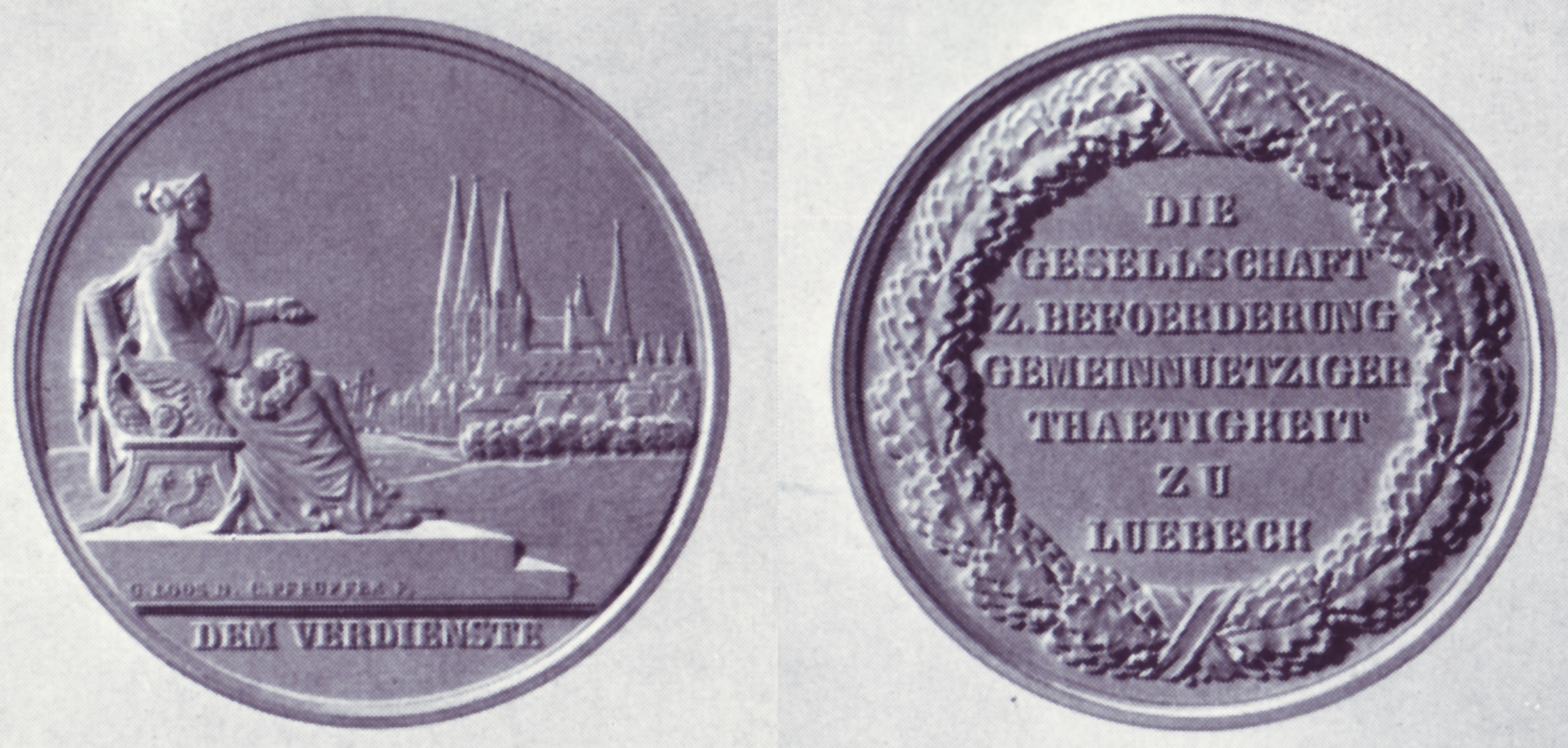 The honorary medal of the Gesellschaft zur Beförderung gemeinnütziger Tätigkeit zu Lübeck in Lübeck